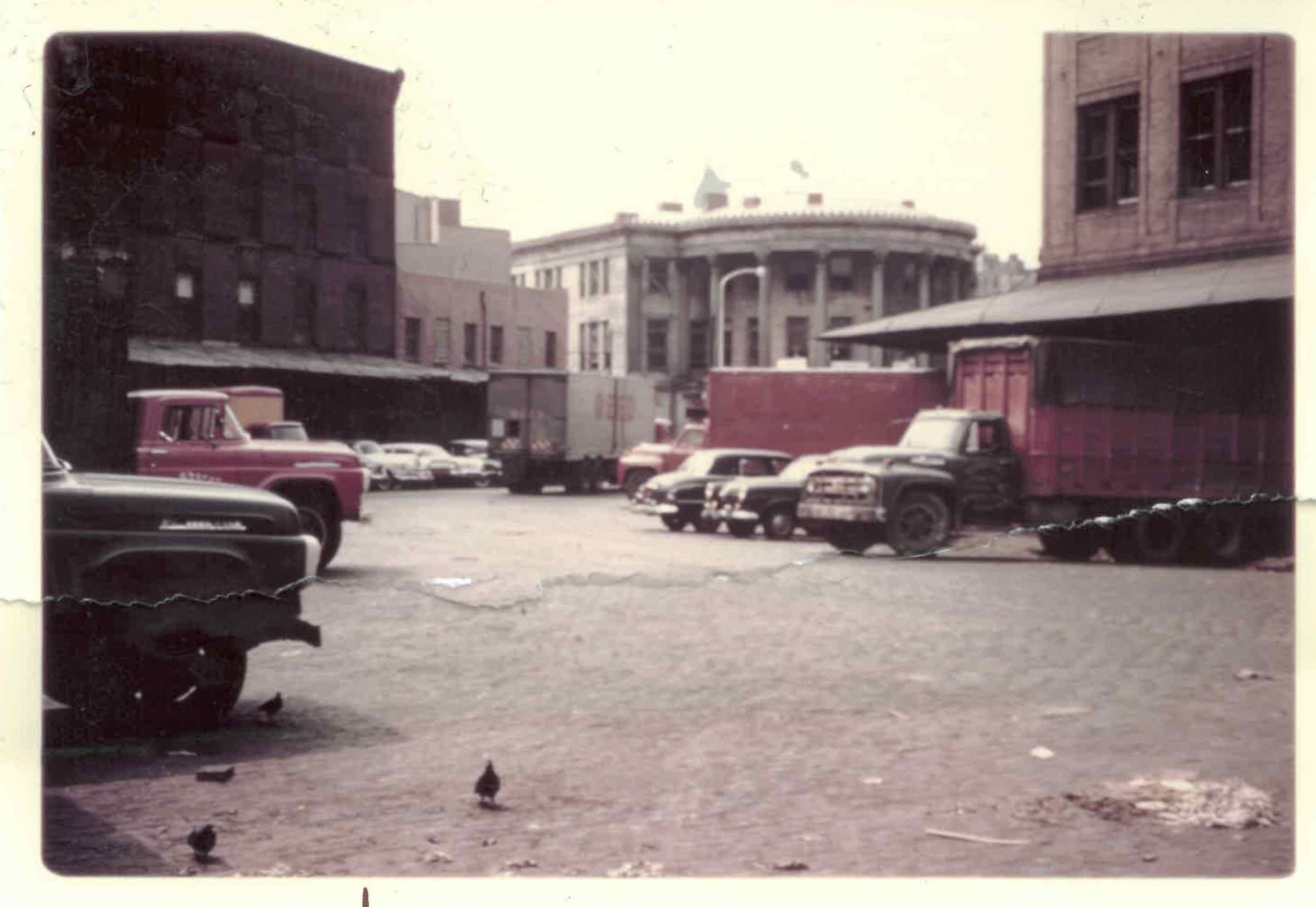 Philadelphia Dock Street Market looking northwest from 214 Dock Street in late 1950s prior to market's close in 1959. Photo from collection of Robert Levin.